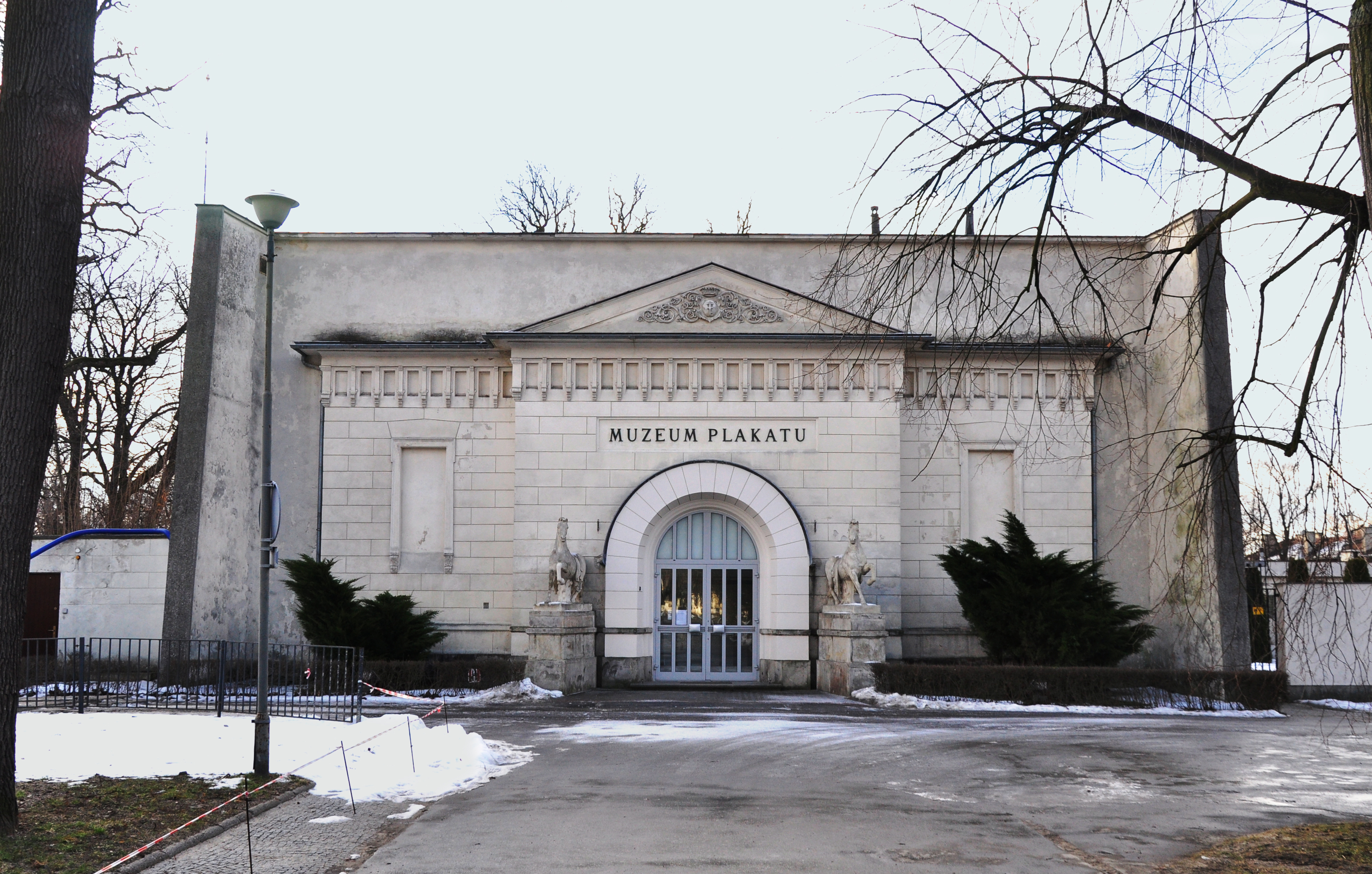 Poster Museum, Wilanów